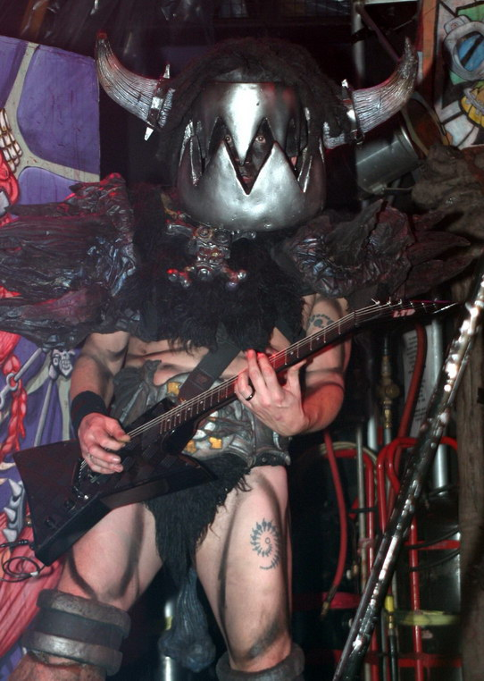 Balsac the Jaws of Death of GWAR Live in Concert